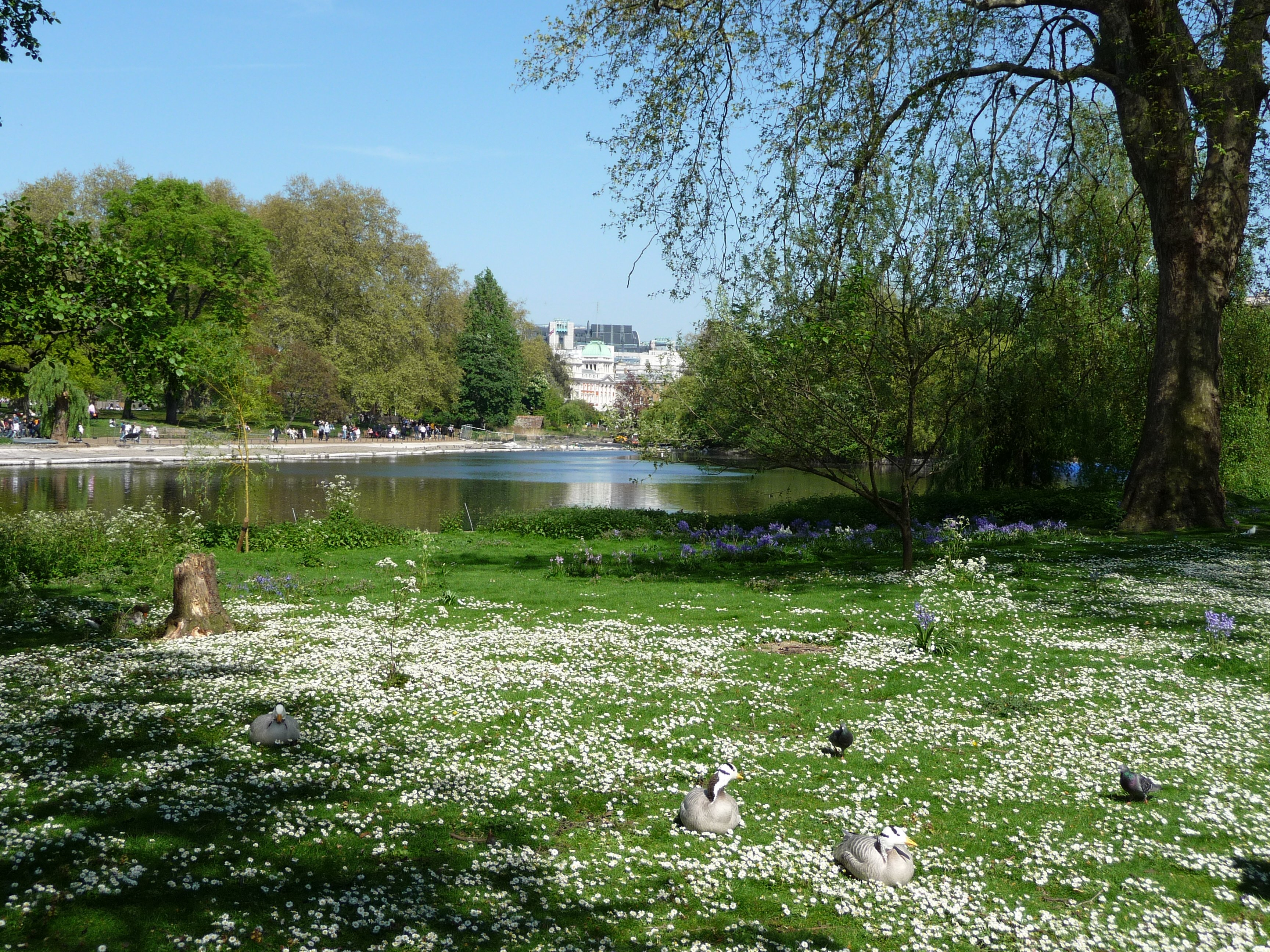 St. James’s Park in London